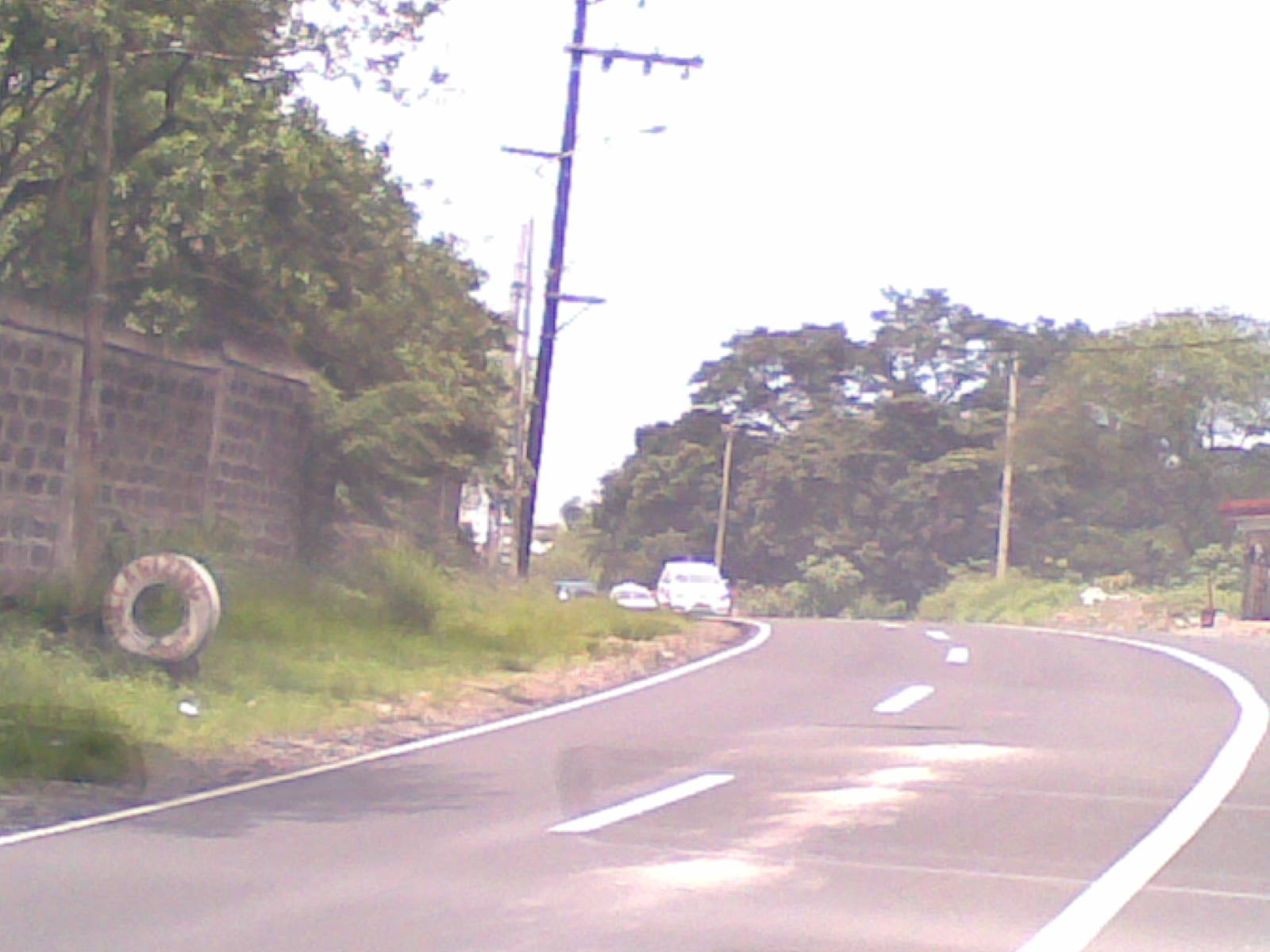 Quirino Highway